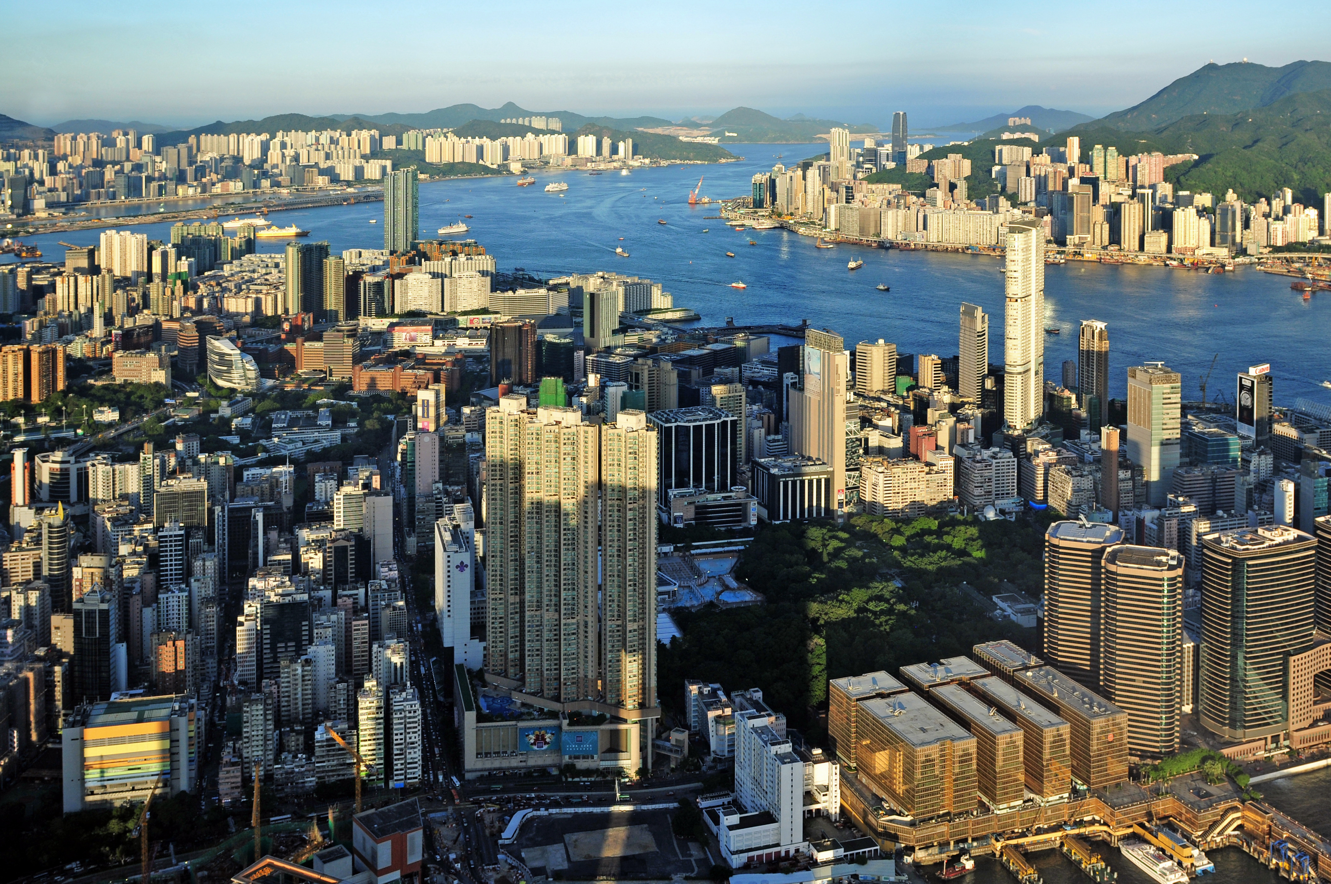 Hong Kong, View from Sky-100 to east